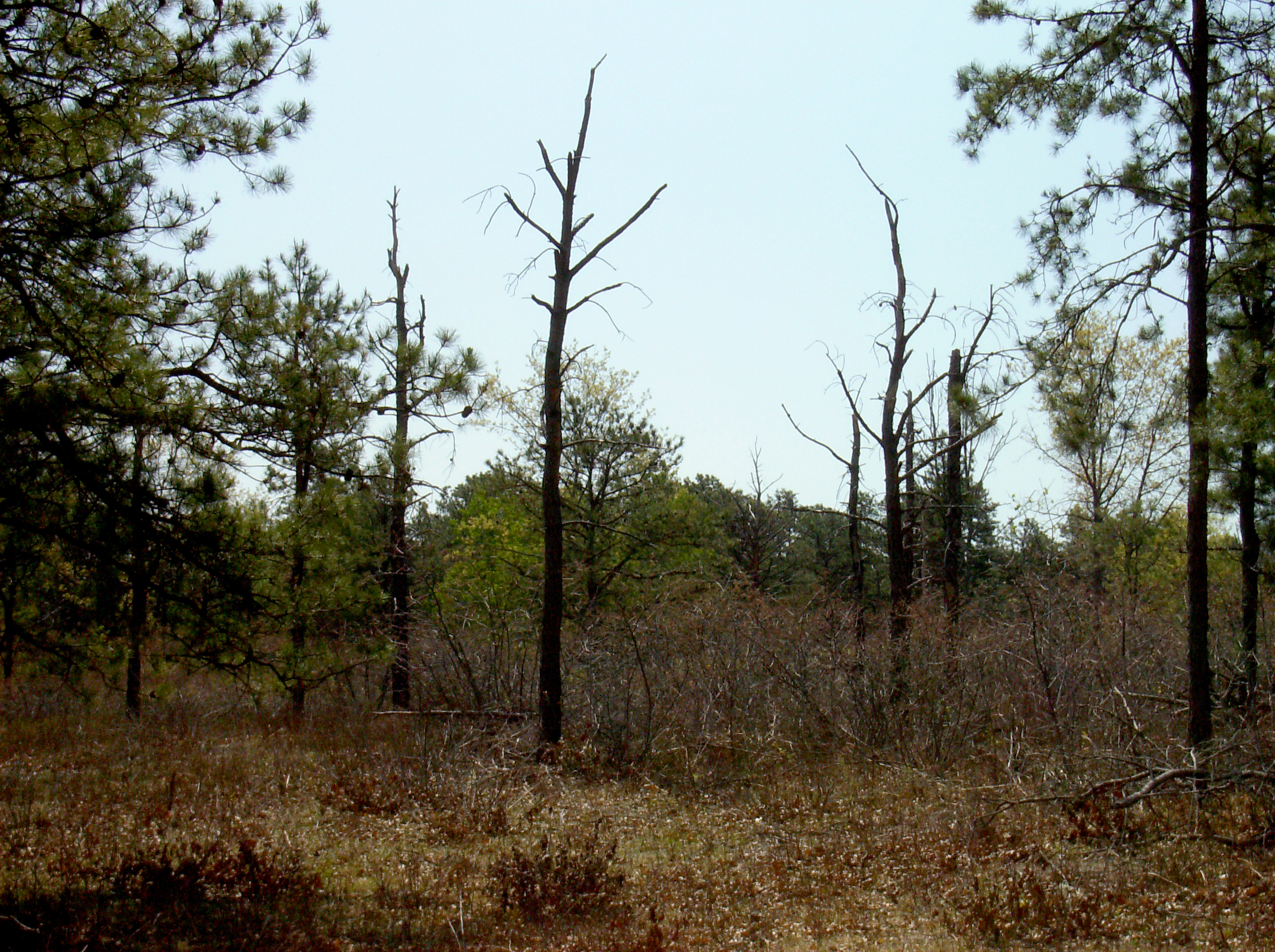 Several burned pitch pine trees in the Albany Pine Bush, the result of a controlled burn.